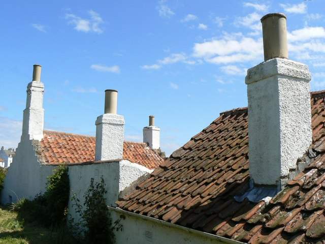 Pantiles and lums Typical Low-Countries architecture of clay pantiles, crow-step gables and exclamation-mark chimneys on cottages above Crail Harbour.